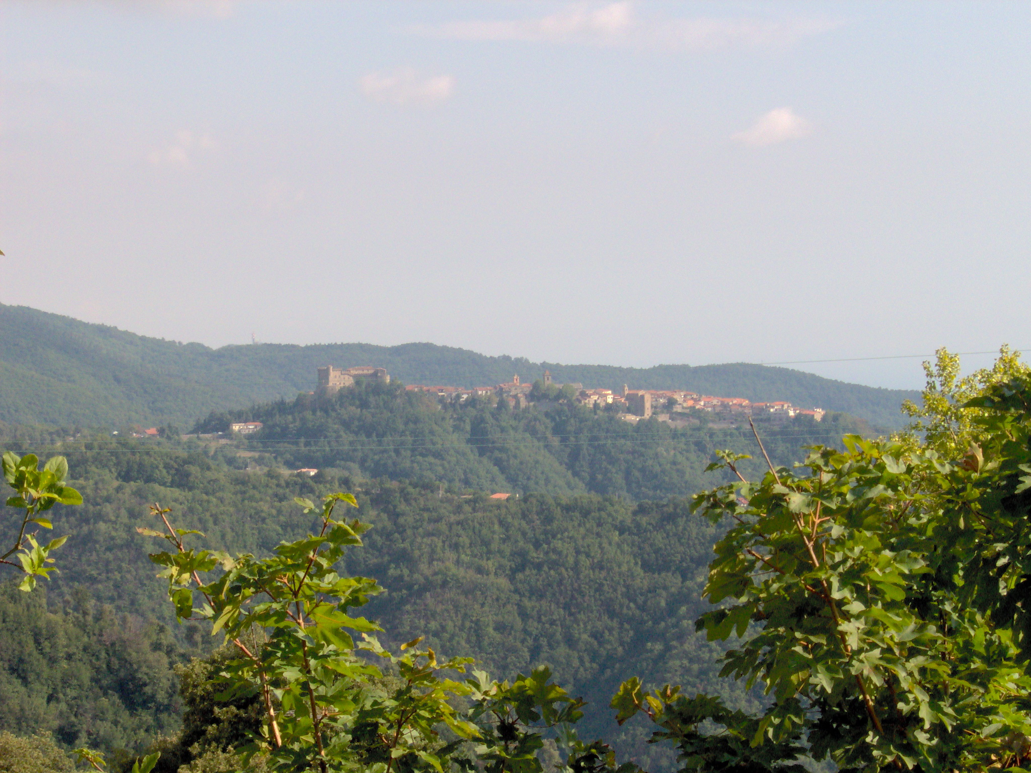 General view of Fosdinovo (province of Massa-Carrara, Tuscany, Italy)